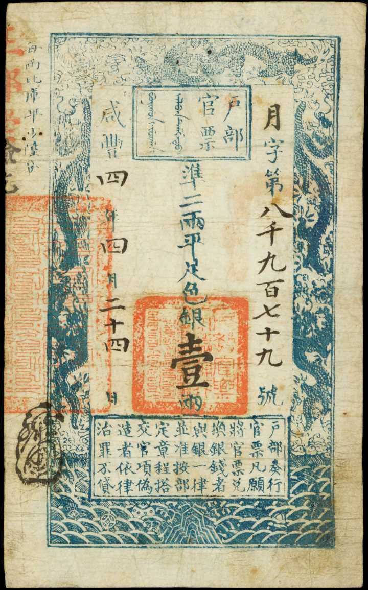 A banknote issued by the Qing Dynasty. The warning text reads: 戶部奏行 官票凡願 將官票兌 換銀錢者 與銀一律 並准按部 定章程搭 交官項偽 造者依律 治罪不貸 (hù bù zòu xíng guān piào fán yuàn jiàng guān piào duì huàn yínqián zhě yǔ yín yīlǜ bìng zhǔn àn bù dìng zhāngchéng dā jiāo guān xiàng wěi zào zhě yī lǜ zhìzuì bù dài) At the bottom of the banknote.